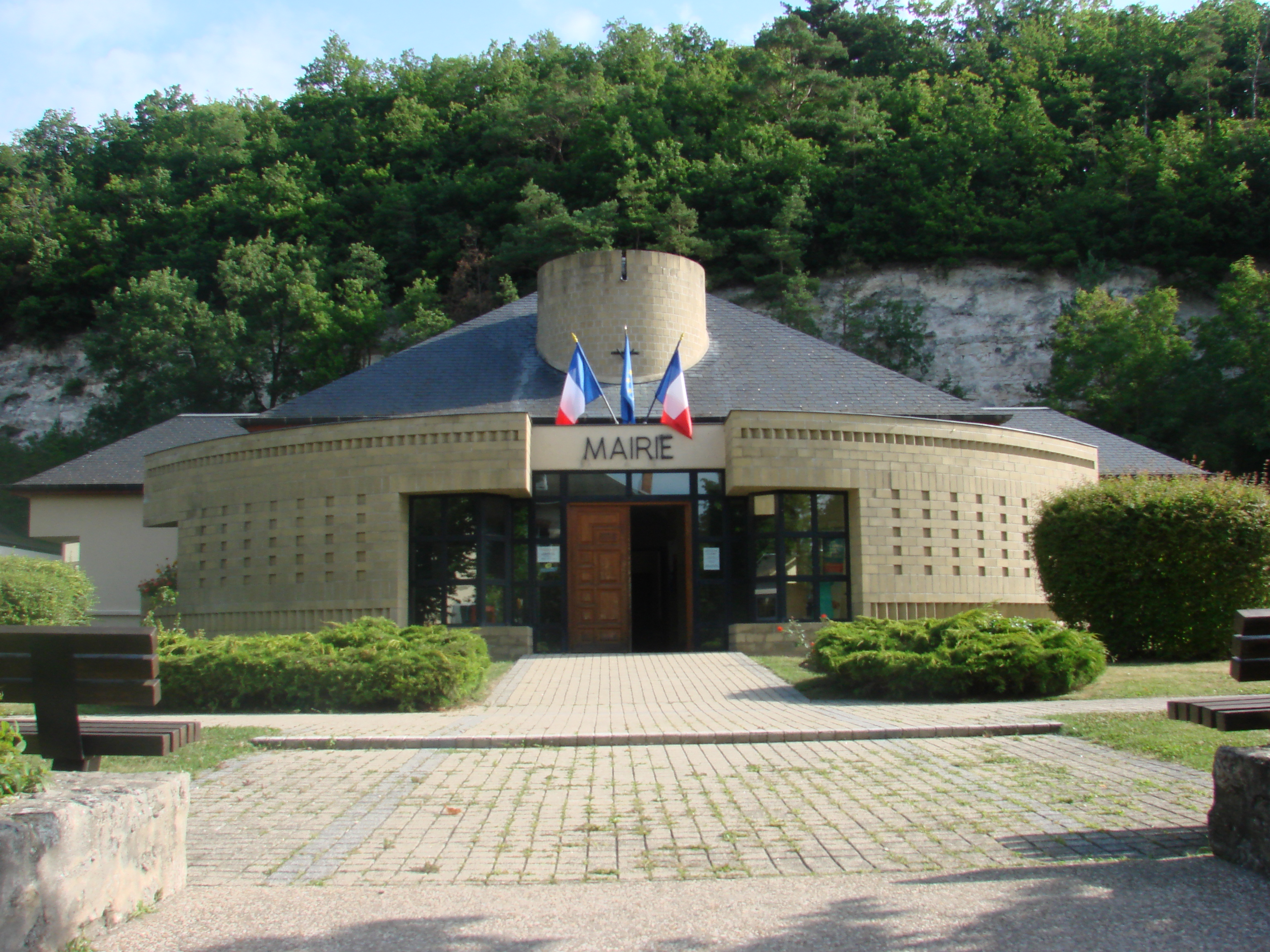 Town Hall of Chalo-Saint-Mars (France, departement of Essonne)